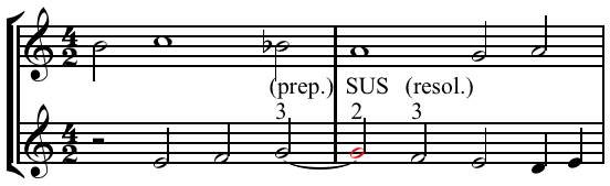 2-3 suspension in Lassus's Beatus vir in sapientia, mm.23-24. Created by Hyacinth (talk) 14:51, 25 February 2010 using Sibelius 5.